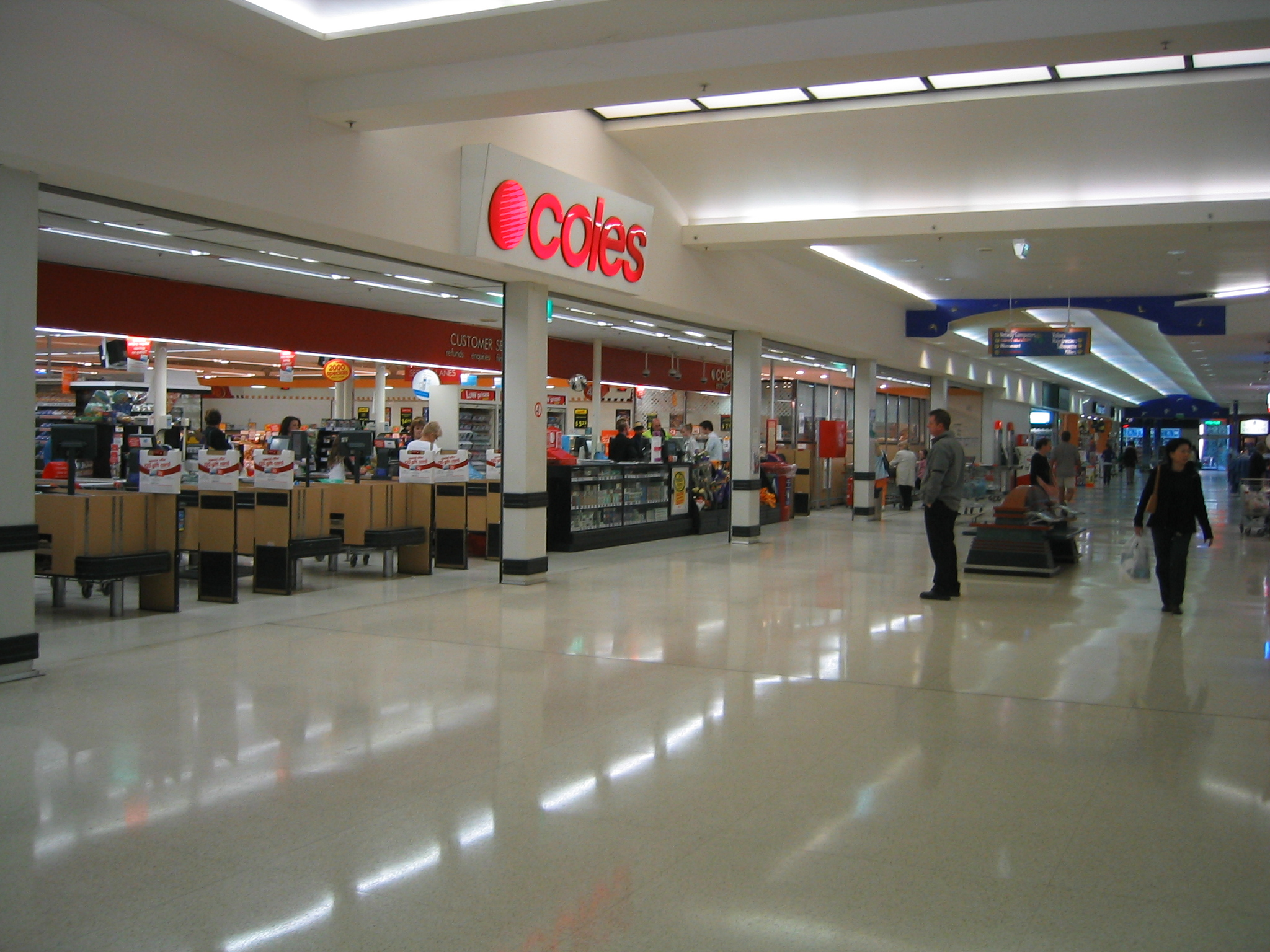 The Coles supermarket in Southlands Boulevarde